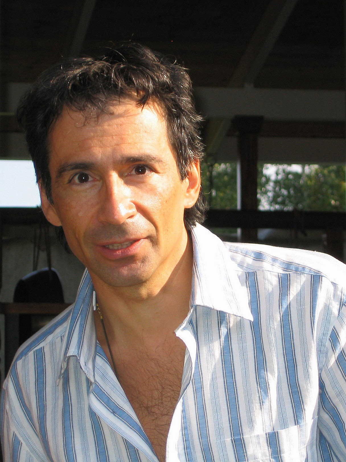 John Palmer.jpg own work 2005 Giovanni Sciarrino